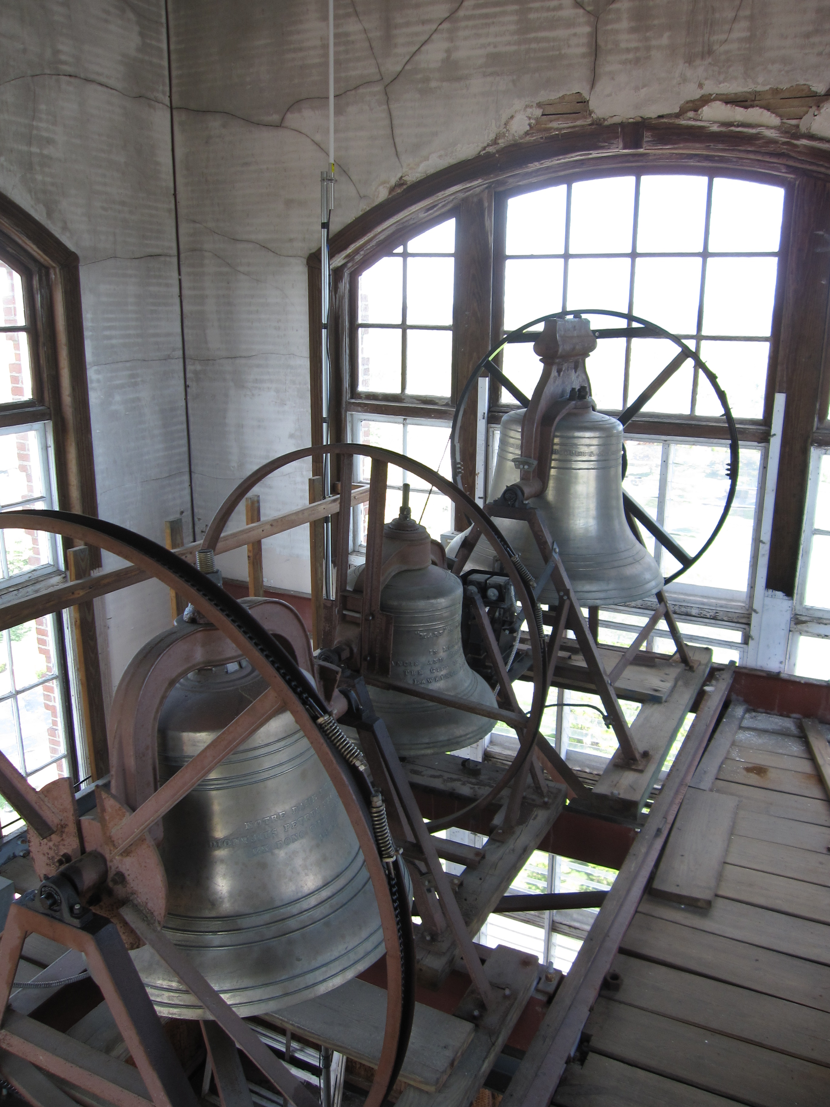 Belltower